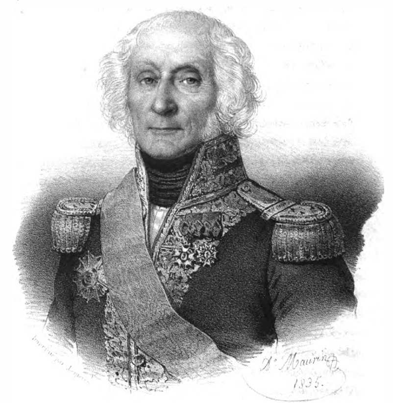 Lithography of Jean-Baptiste Philibert Willaumez